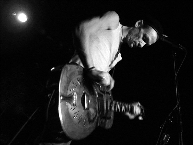 Chris Whitley playing at the 400 Bar in Minneapolis, MN